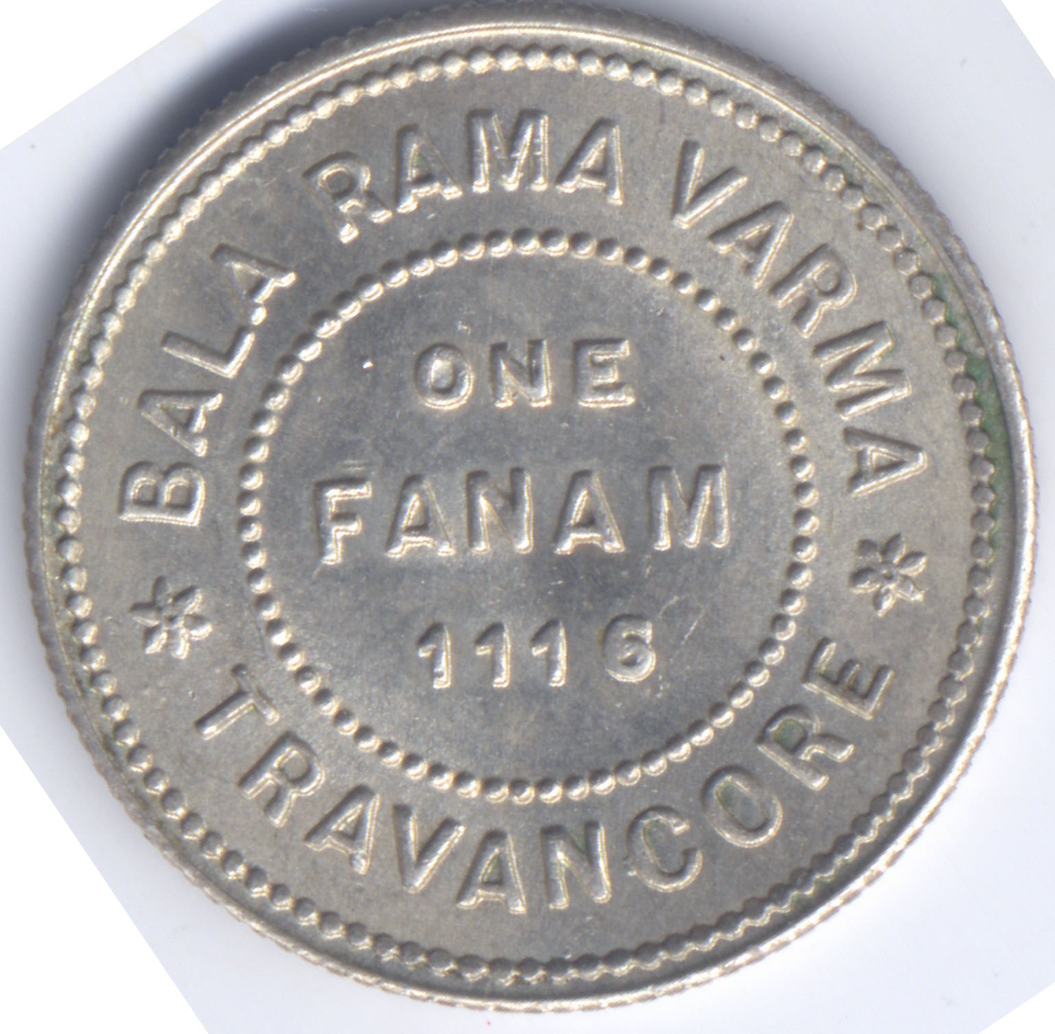 One Fanam. Issued by Travancore State. Year 1116 (Malayalam calendar). Issuing Monarch - Bala Rama Varma.